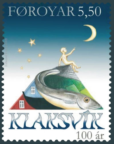 Stamp FO 626 of the Faroe Islands: Klaksvík 100 years